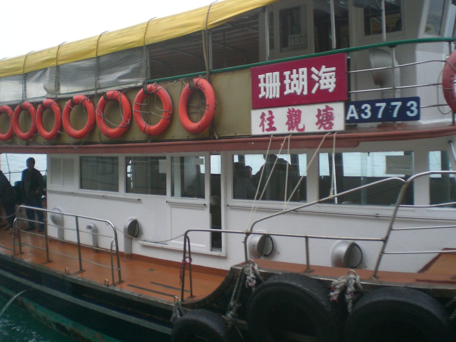 香港東區 西灣河碼頭